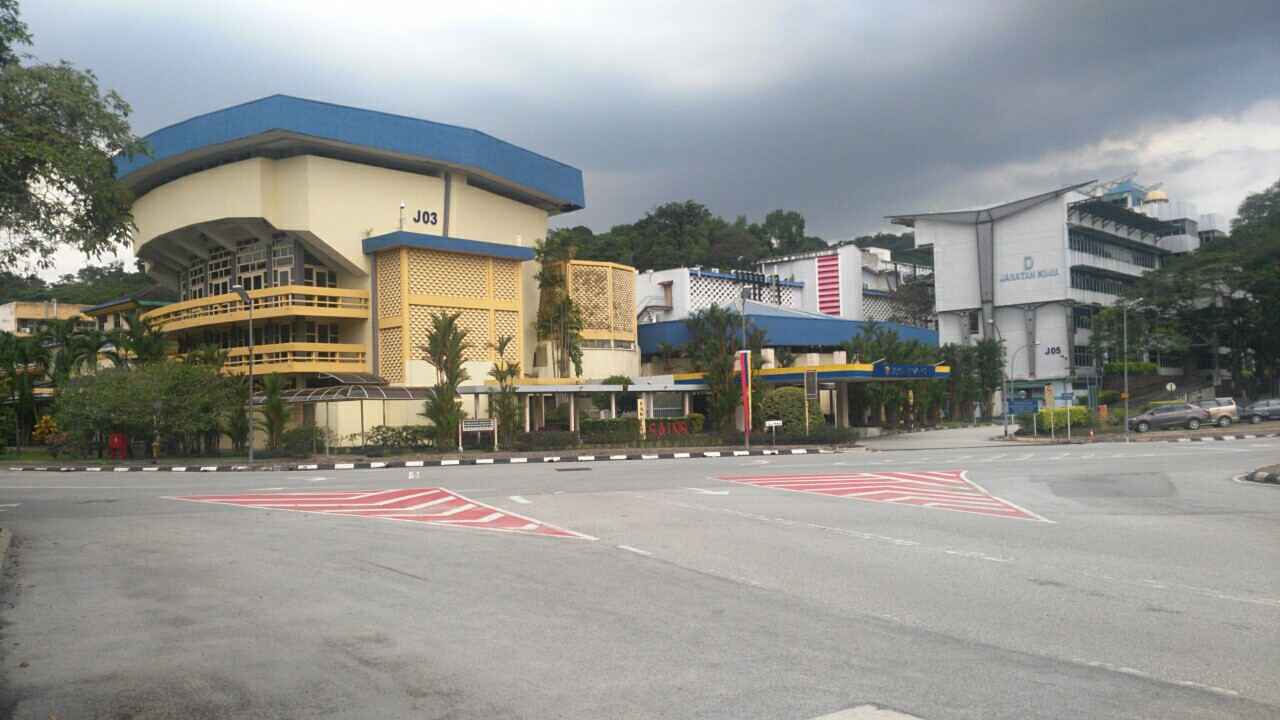 A photograph of the south side of the University of Malaya's Faculty of Science building.